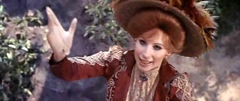 Screenshot of Barbra Streisand from the trailer for the film Hello, Dolly! (film)